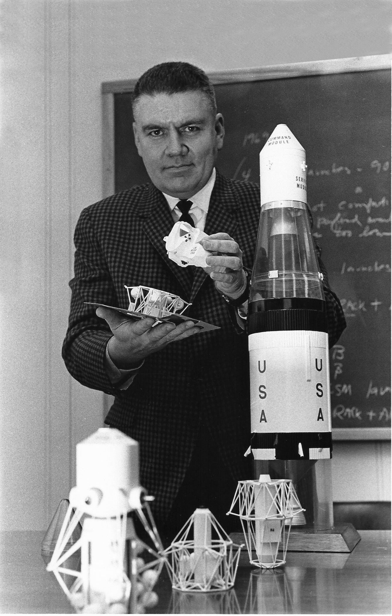 John H. Disher, then Deputy Director of the "Saturn Applications Office, Manned Space Flight", explaining the components of the Apollo program.